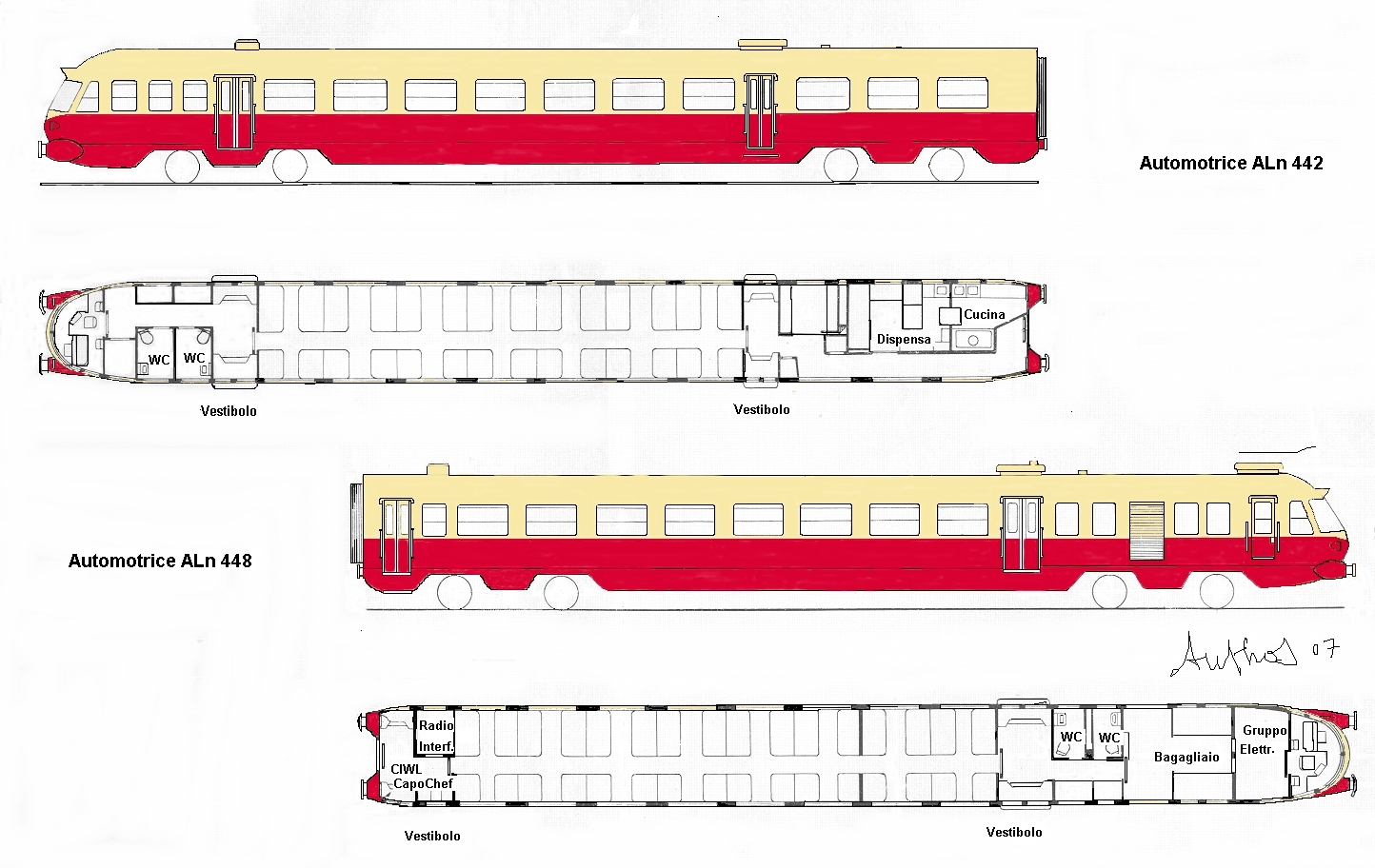 Automotrice Breda ALn 442-448 (plan)